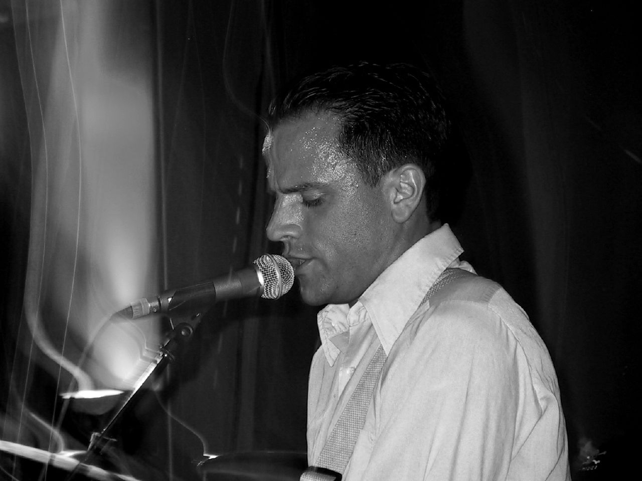 Greg MacPherson performing in Saskatoon. I thought I'd add a black and white version too since the lighting made him look more red than he should be.